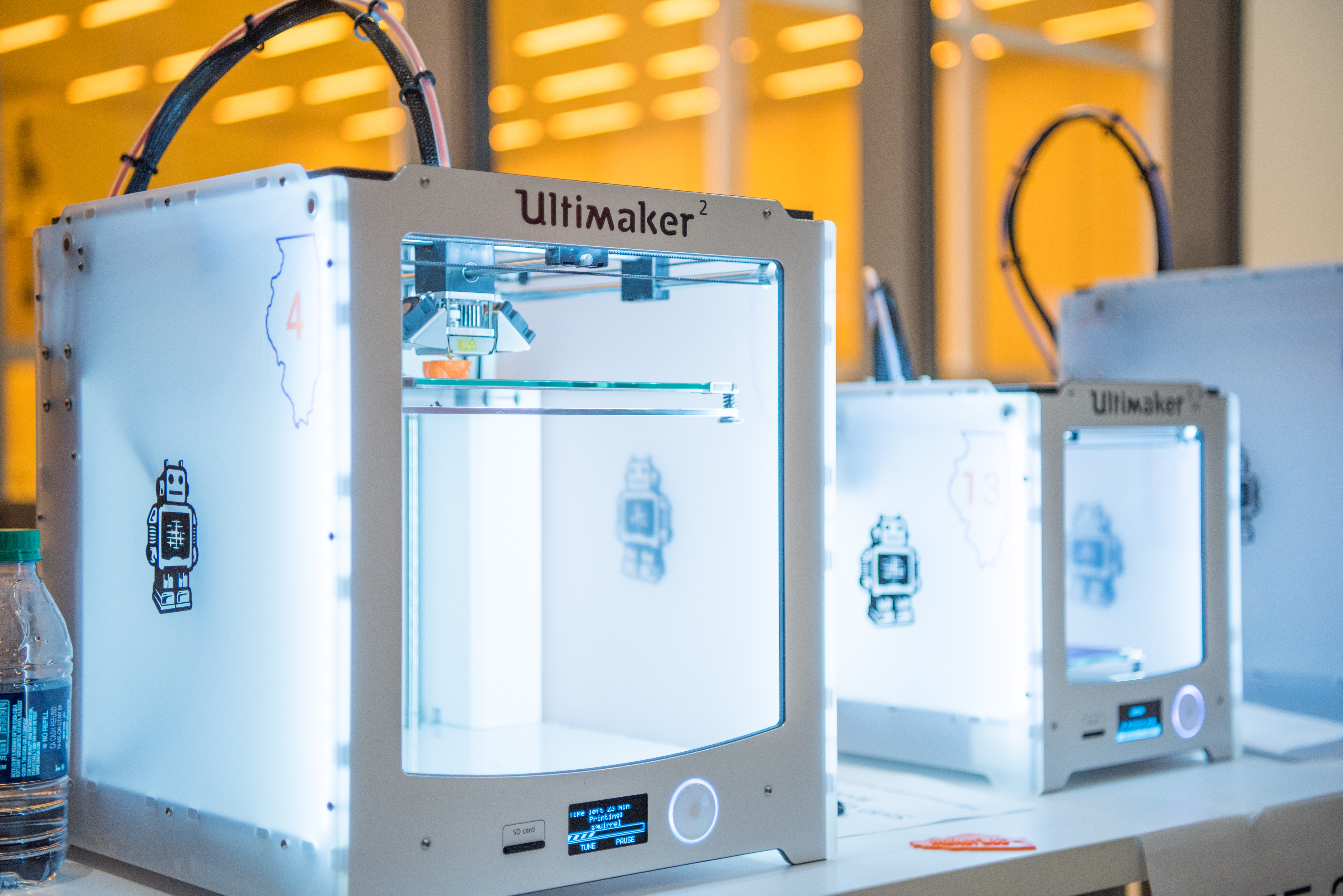 3D printing booth